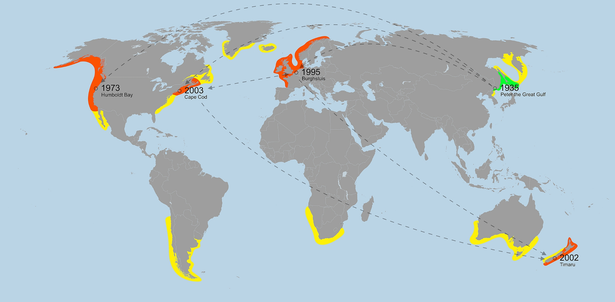 Global distribution of Caprella mutica. Green areas show the native distribution; red areas show locations of introduced populations; and yellow areas show potential locations Caprella mutica can be introduced into. Location and date of first records in each area are also shown, along with likely introduction pathways indicated by arrows. Data from: Gail V. Ashton (2006). Distribution and dispersal of the non-native caprellid amphipod, Caprella mutica Schurin 1935